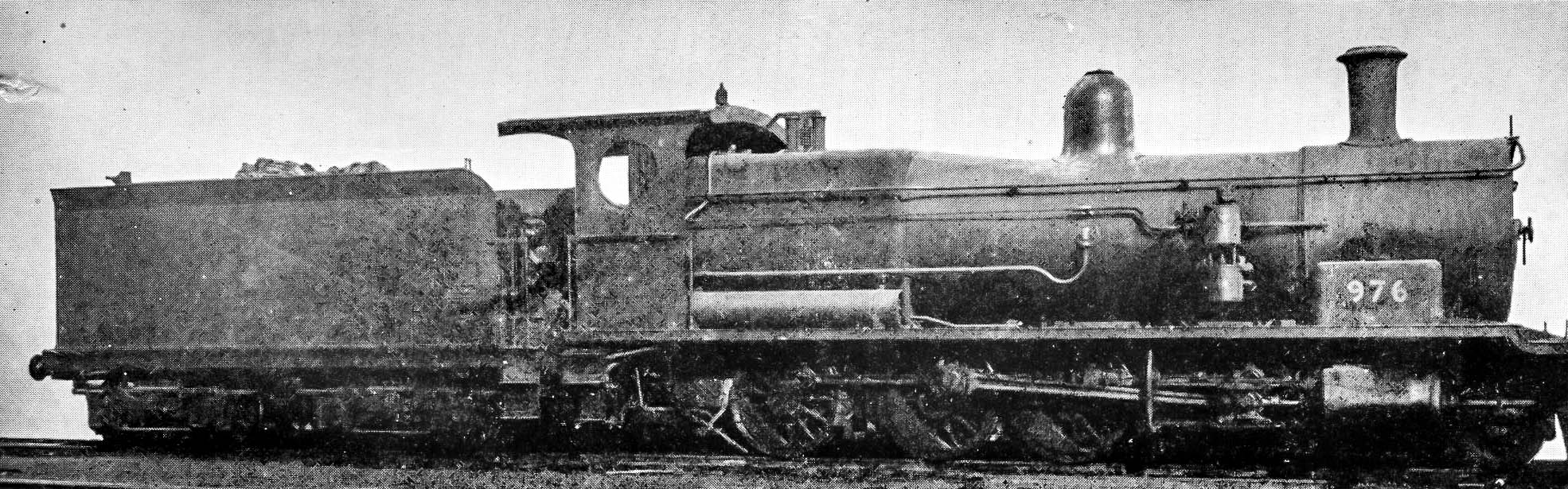 NSWGR Class D53 Locomotive